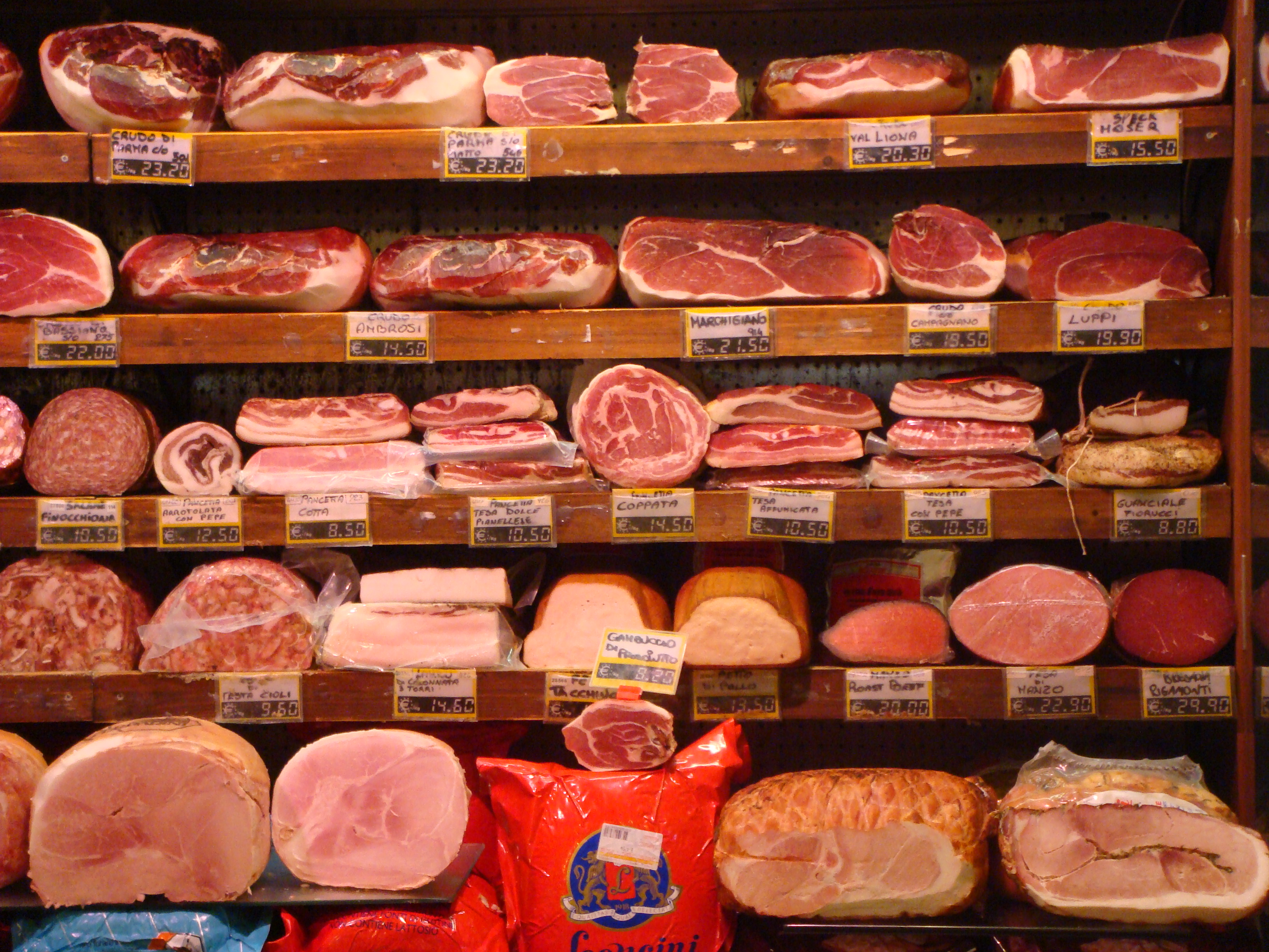 Meat counter: Prosciutto (top two rows), salami and bacon, roast beef.